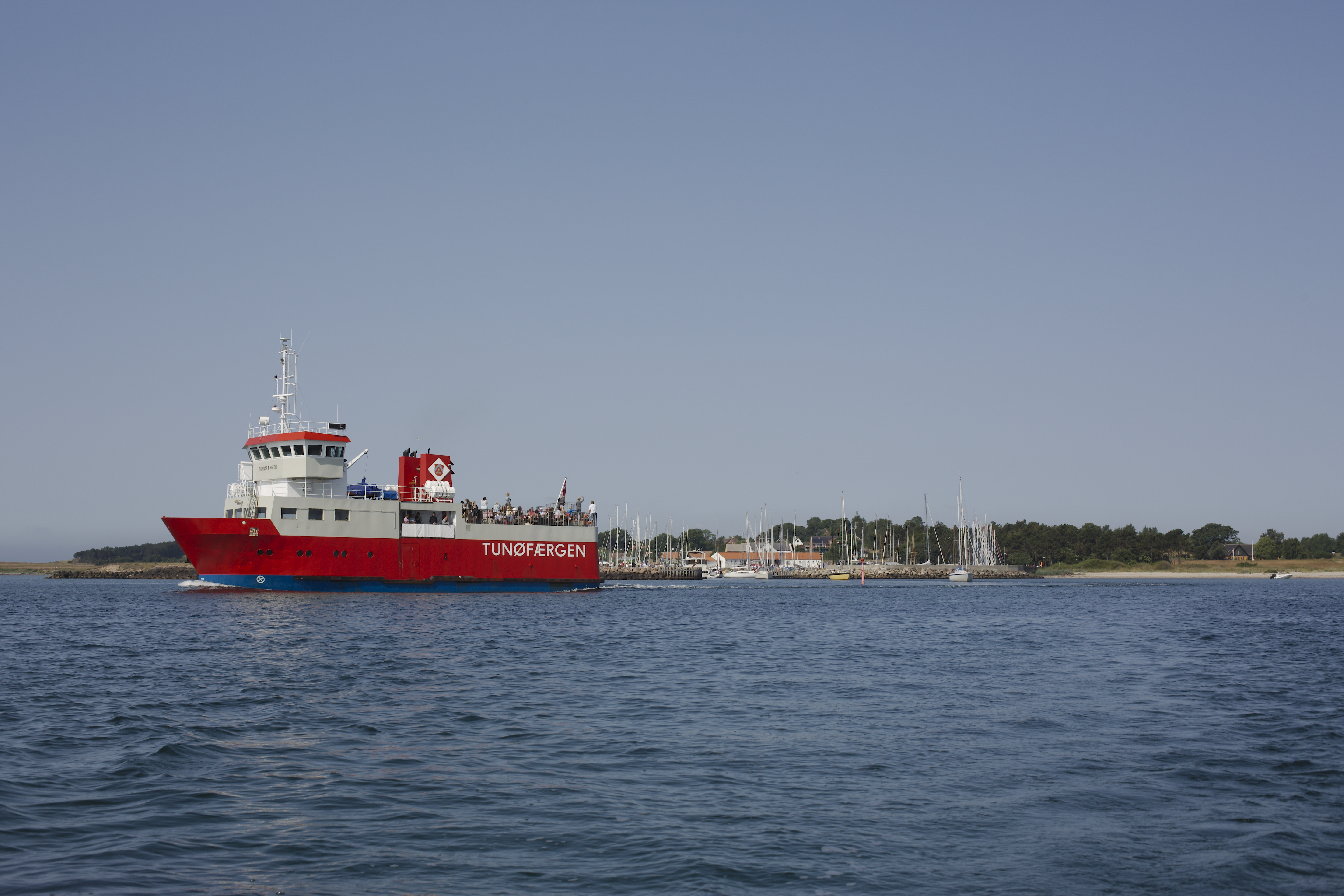 Tunø ferry on the way out from Tunø habour